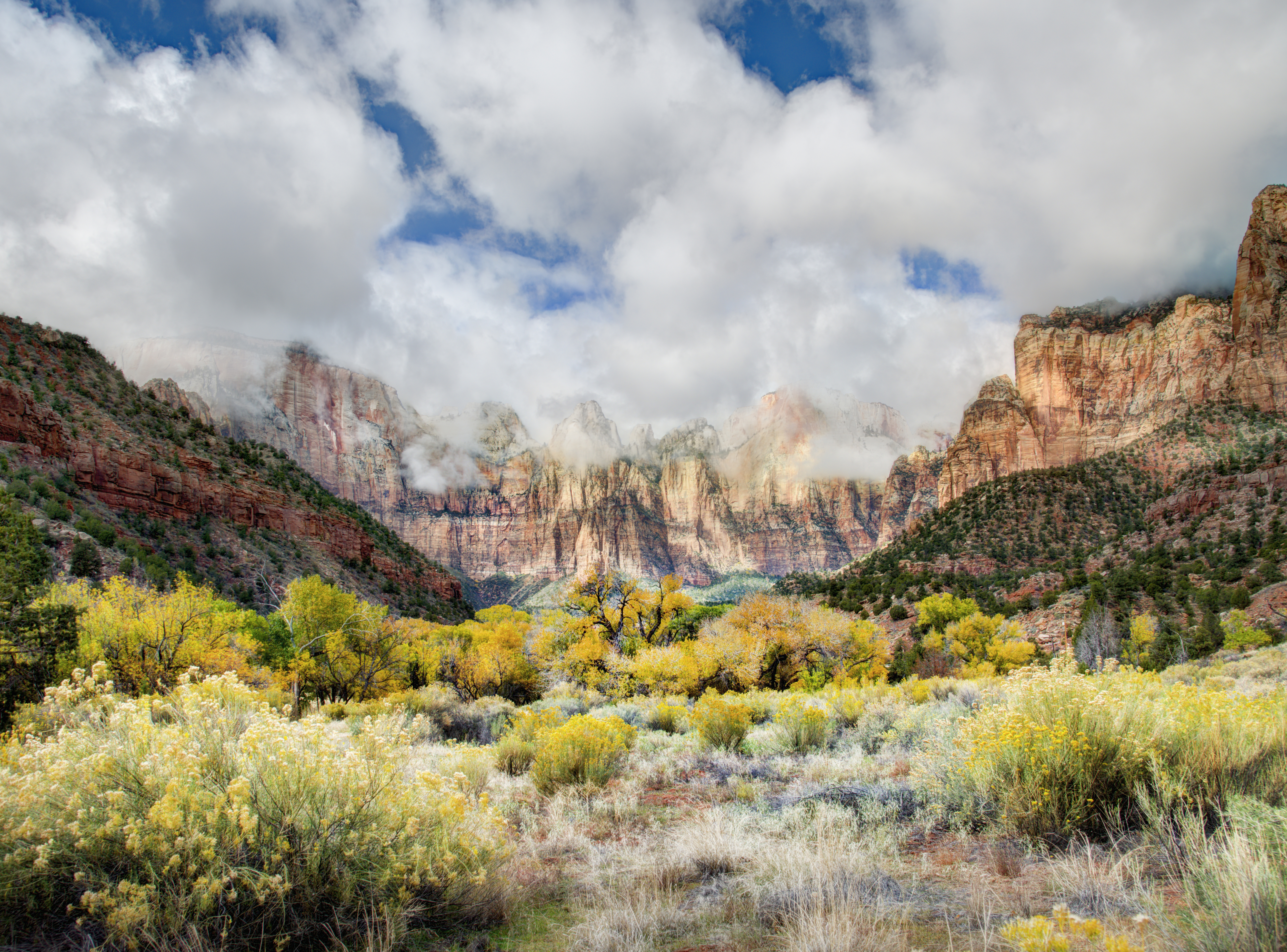 Temples and Towers of the Virgin, Zion National Park